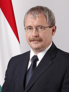 Sándor Fazekas, Hungarian politician, Minister of Rural Development in the Second Cabinet of Viktor Orbán